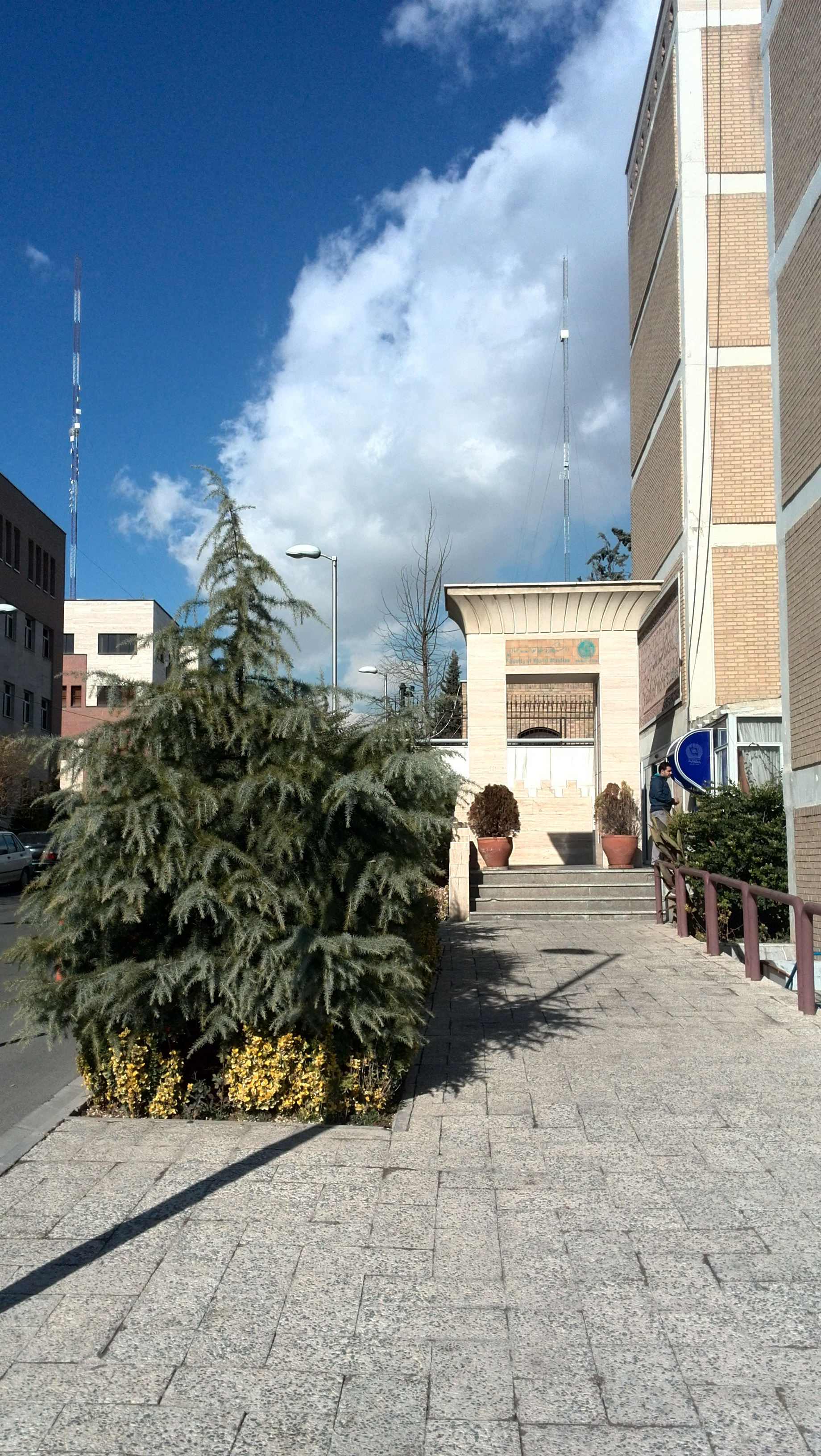 The faculty of World Studies, Universty of Tehran